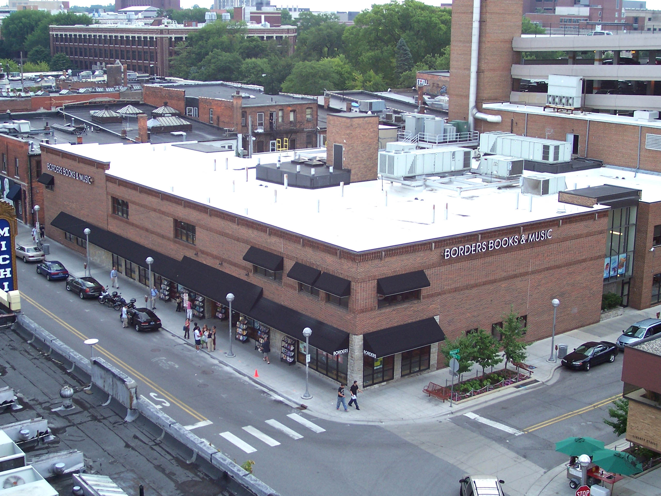 Borders' Books current flagship store in Downtown Ann Arbor, Michigan, USA. While this is technically Borders store #1, the original store was one block east. Borders moved the store into the old Jacobsen's department store, pictured here, in the late 1990s.